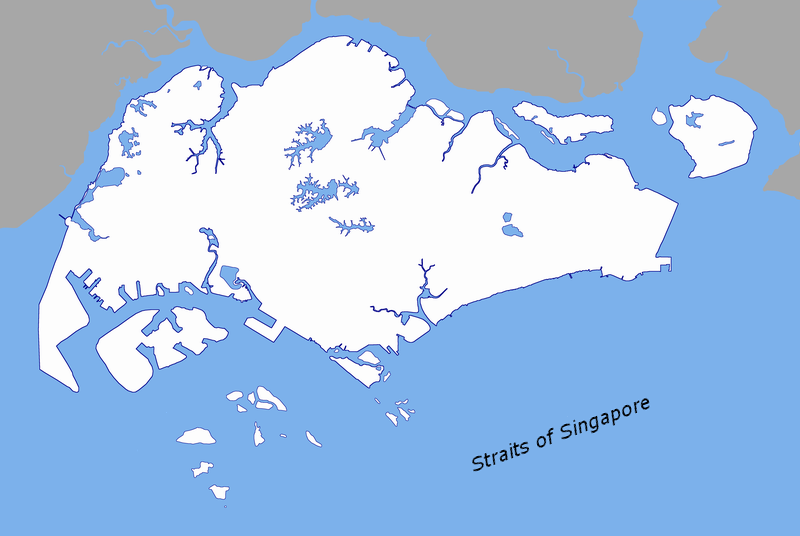 Authored by SpLoT(gallery)